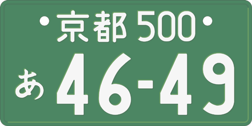 Japanese license plate for commercial vehicles. This sample license plate is registered to Kyoto.